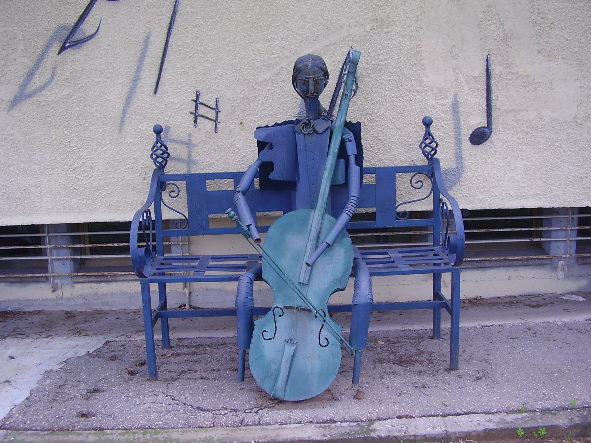 Rosh Ha'ayin music town - Cello player